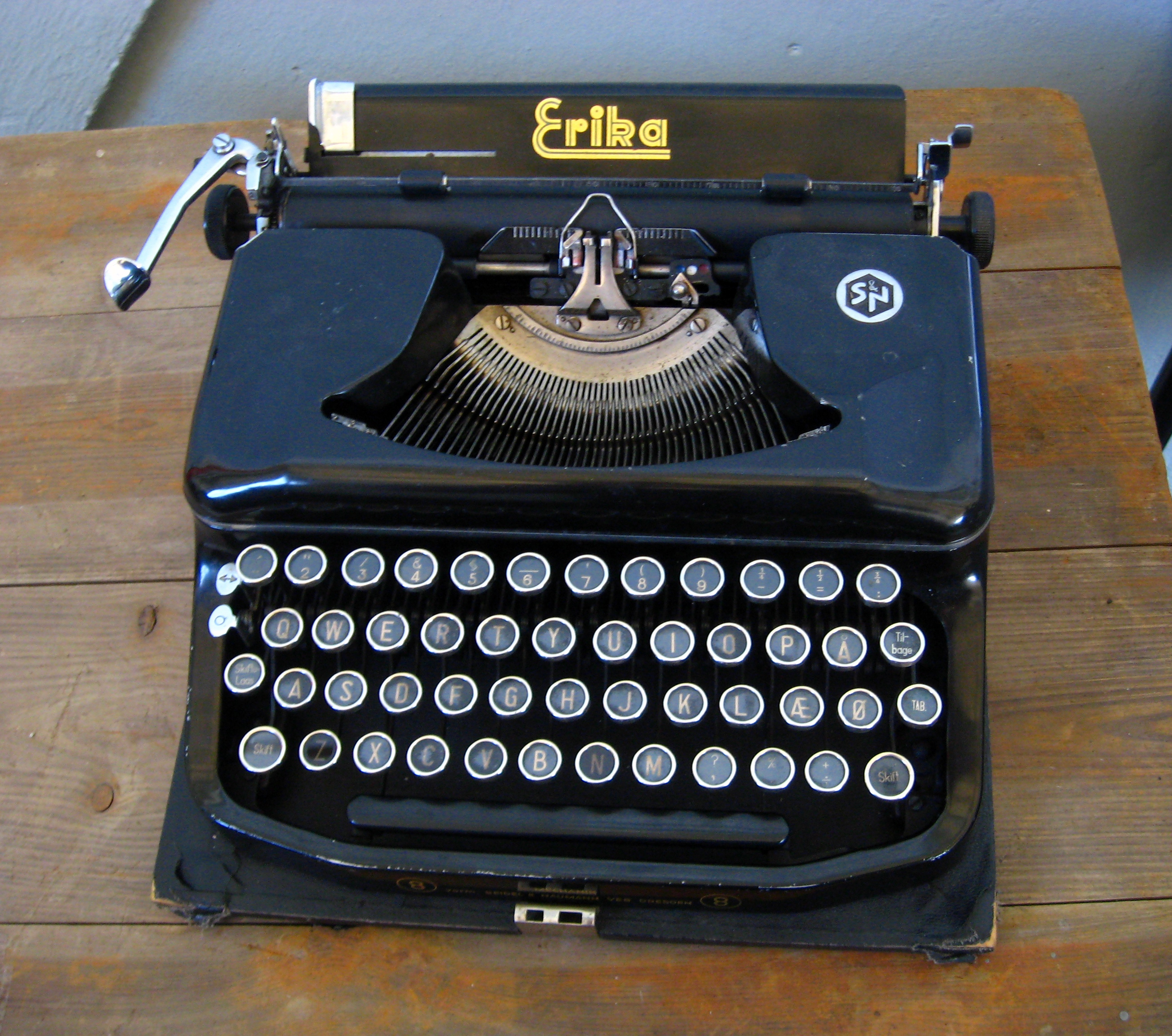 An Erika typewriter with Danish letters Å Ø Æ